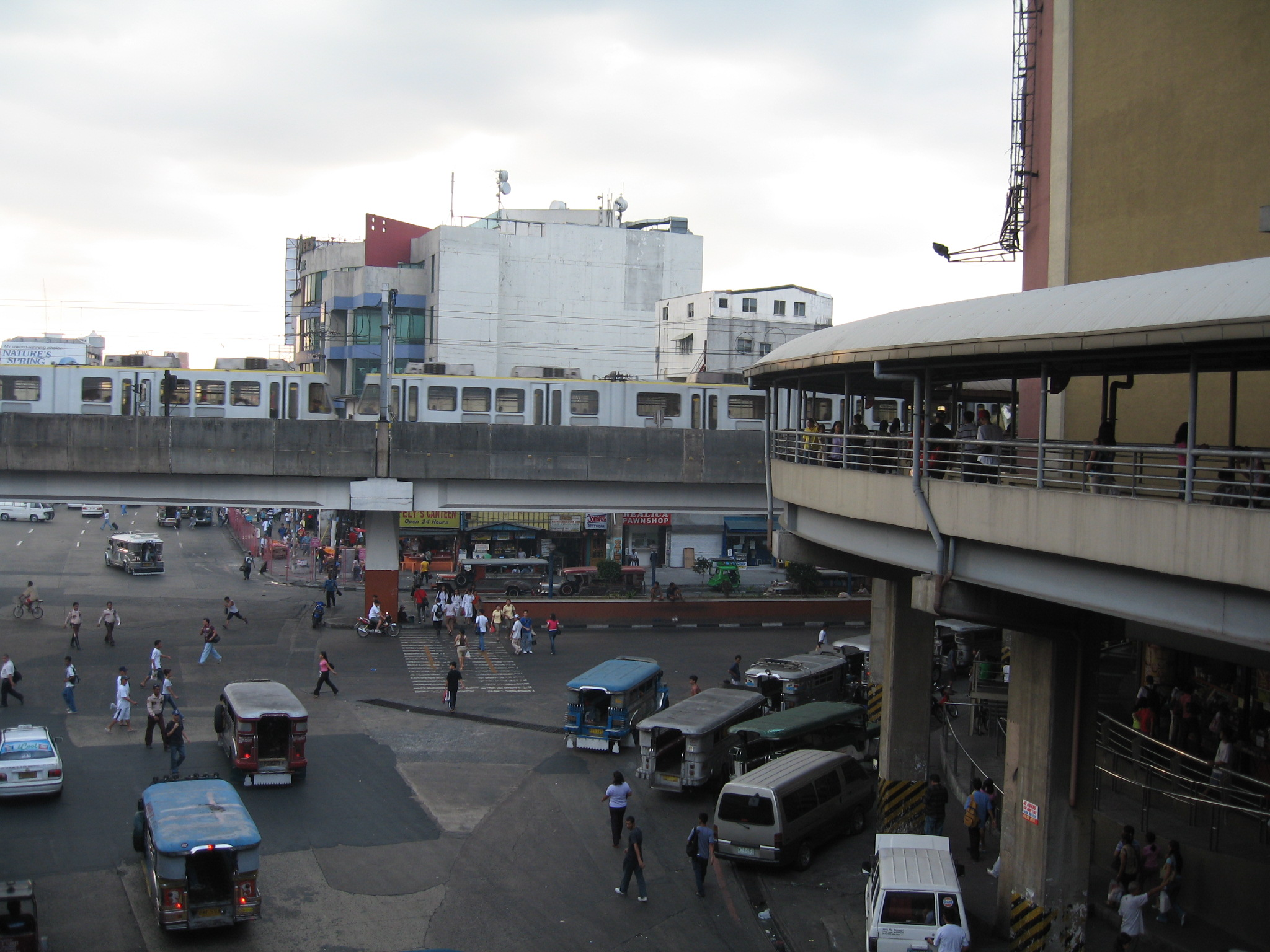 MRT 3-LRT 1 Connecting Bridge. Self-taken.